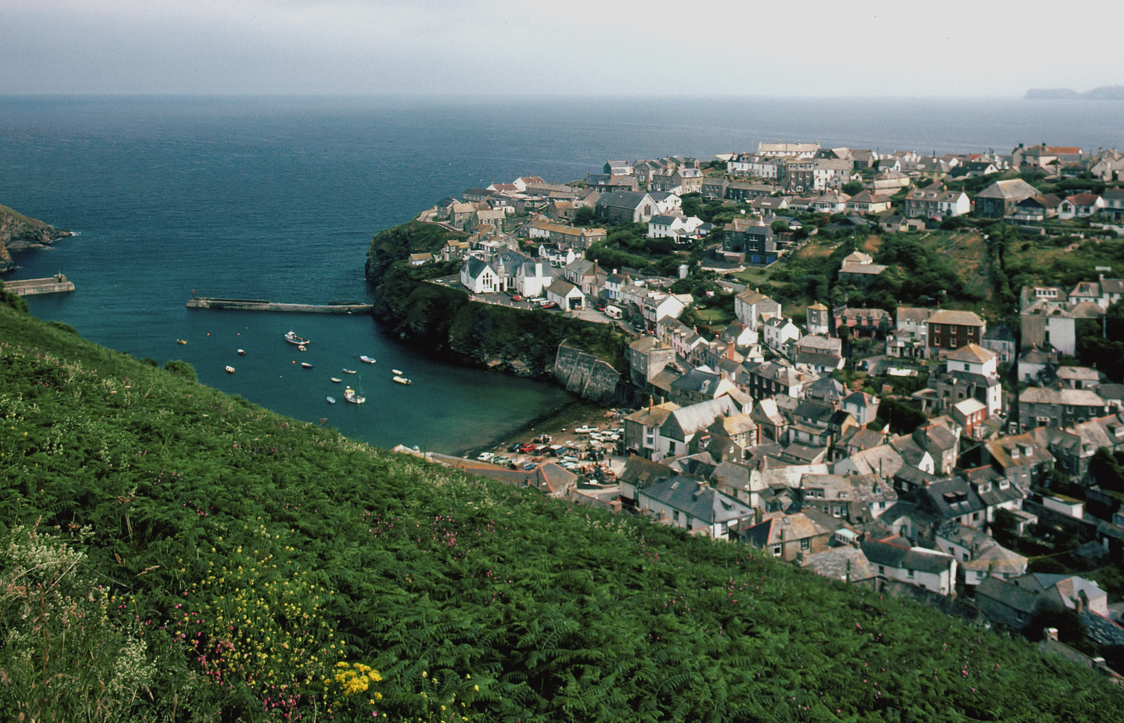 Port Isaac, Cornwall/UK